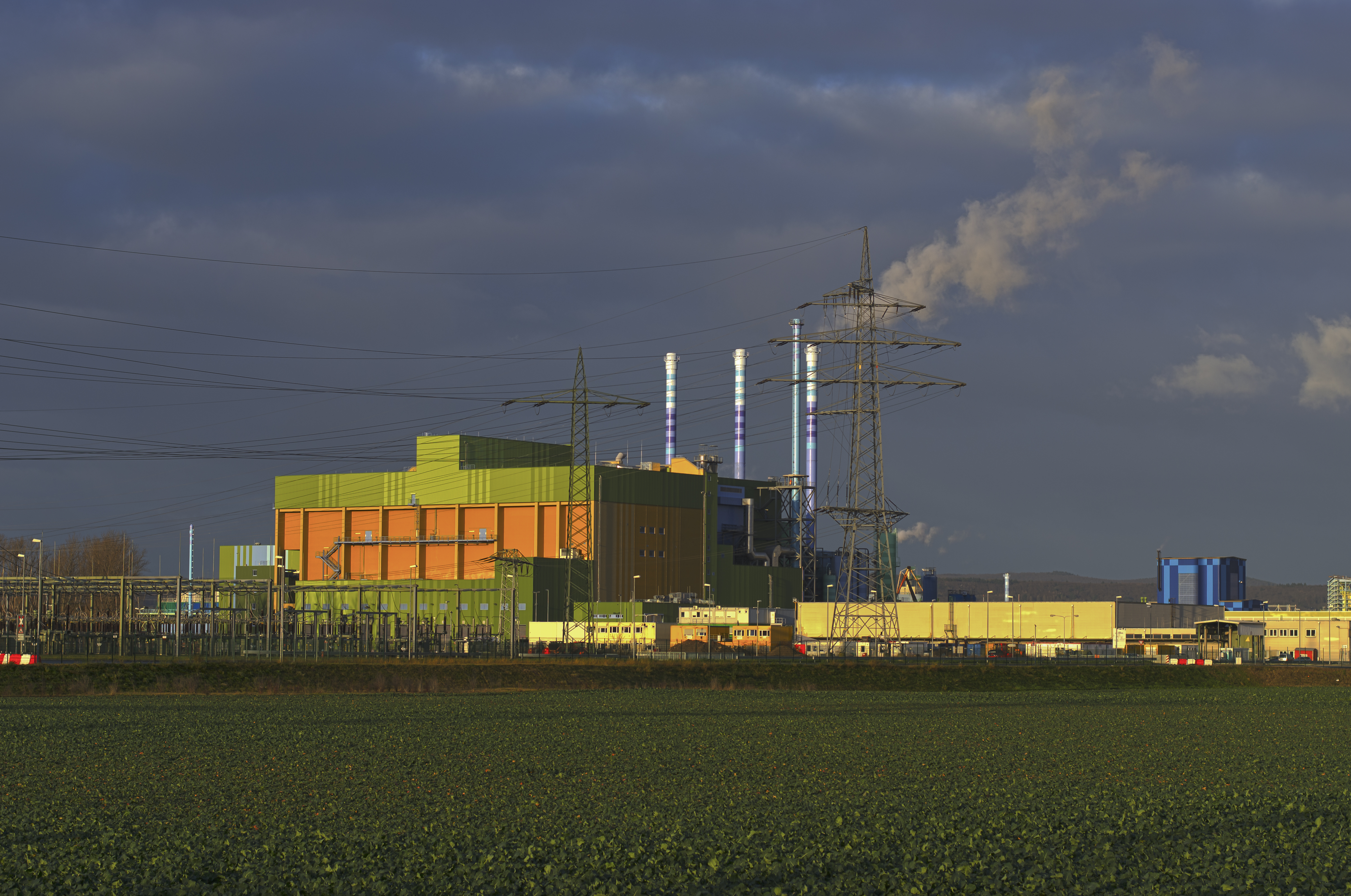 Incinerator (waste-to-energy plant; waste incineration plant), Industry park Höchst, Hesse, Germany. Presumably the largest incinerator in Germany with a capacity of about 675000 tons per year. Tone-mapped HDR image.